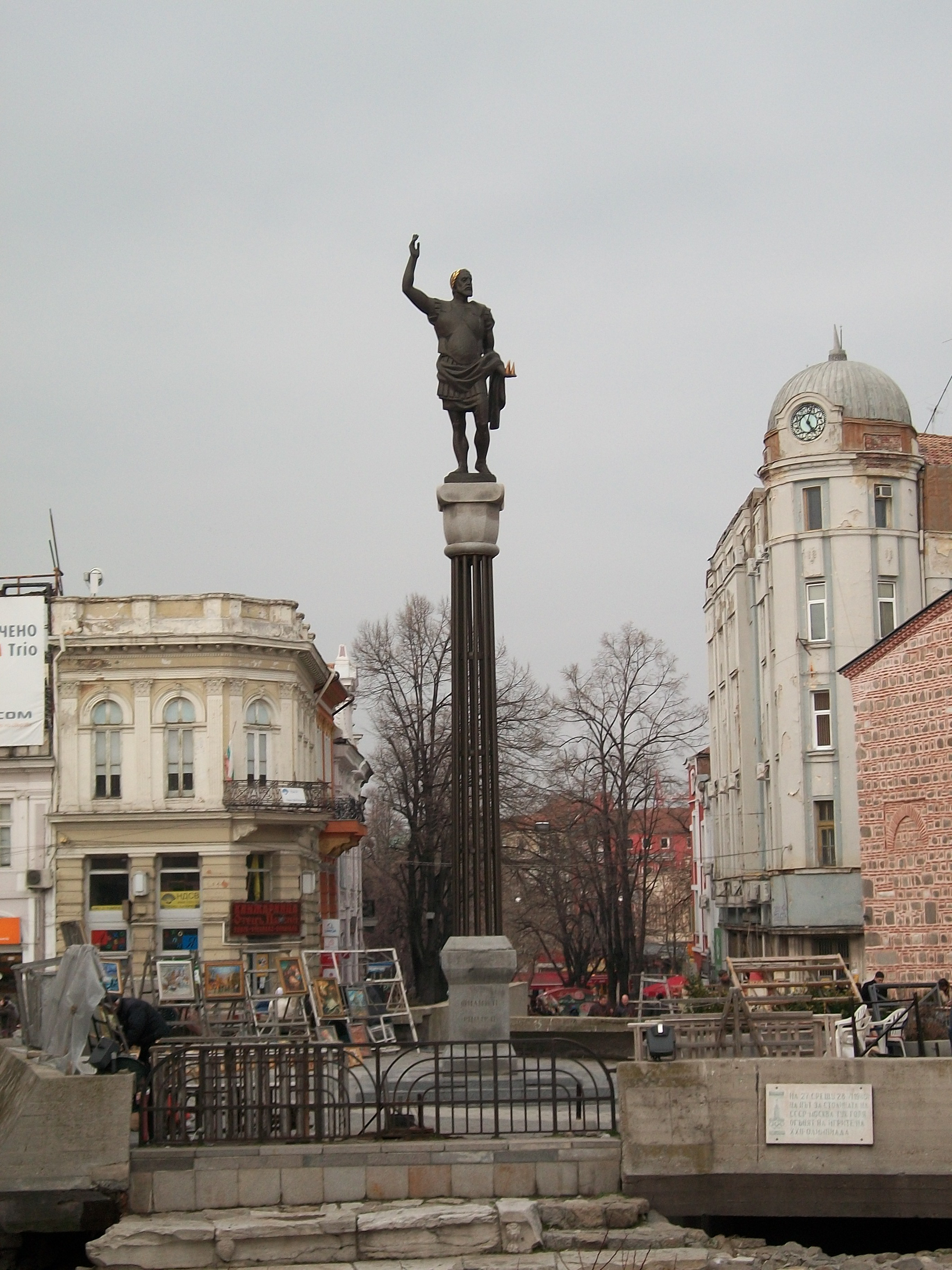 Monument to Philip II of Macedon in Plovdiv